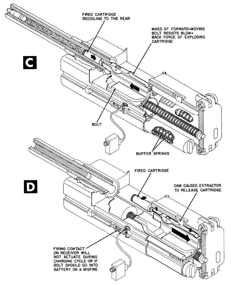 Bolt cycle of the MK108 cannon (part II)